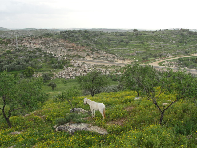 الاراضي الجنوبية من القرية